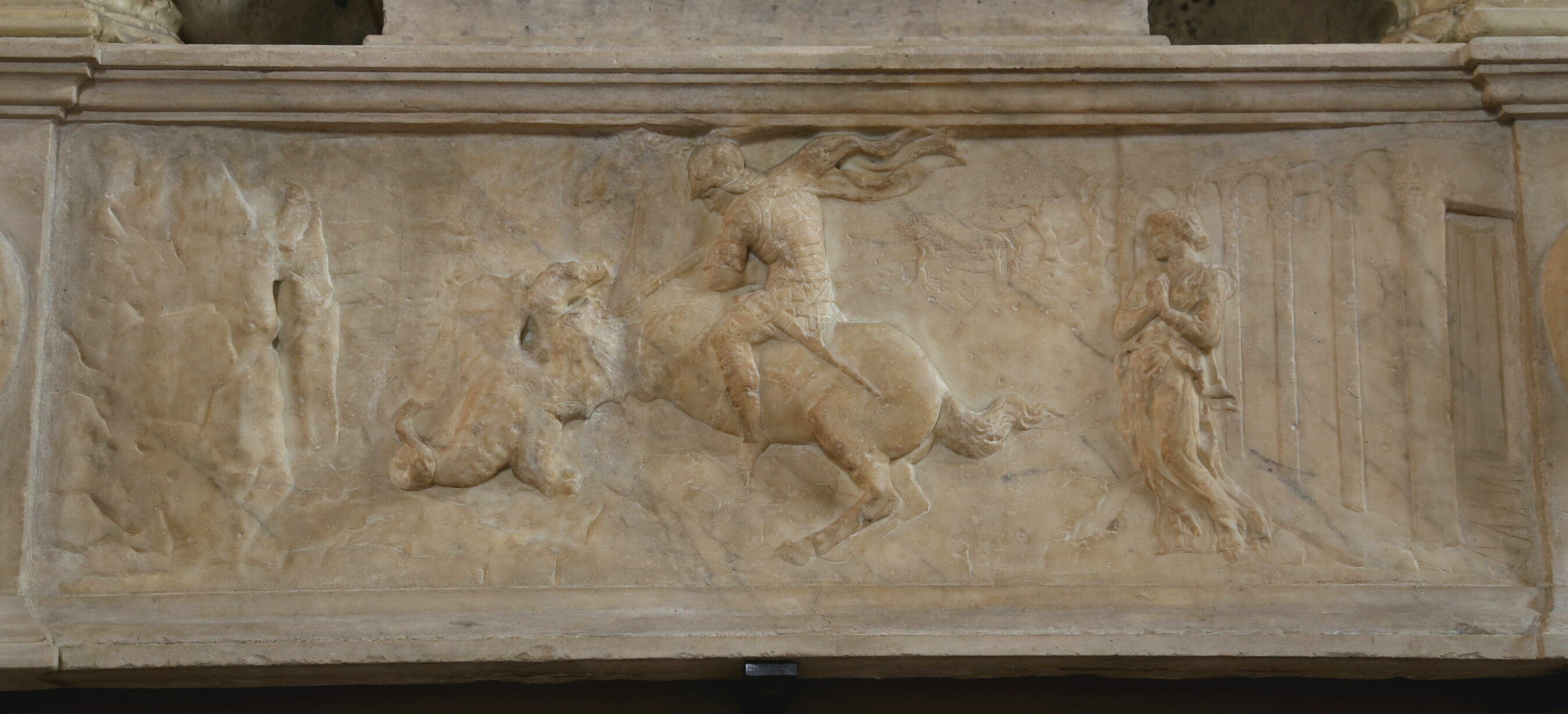 Donatello, Saint George (predella), Museo del Bargello, Florence